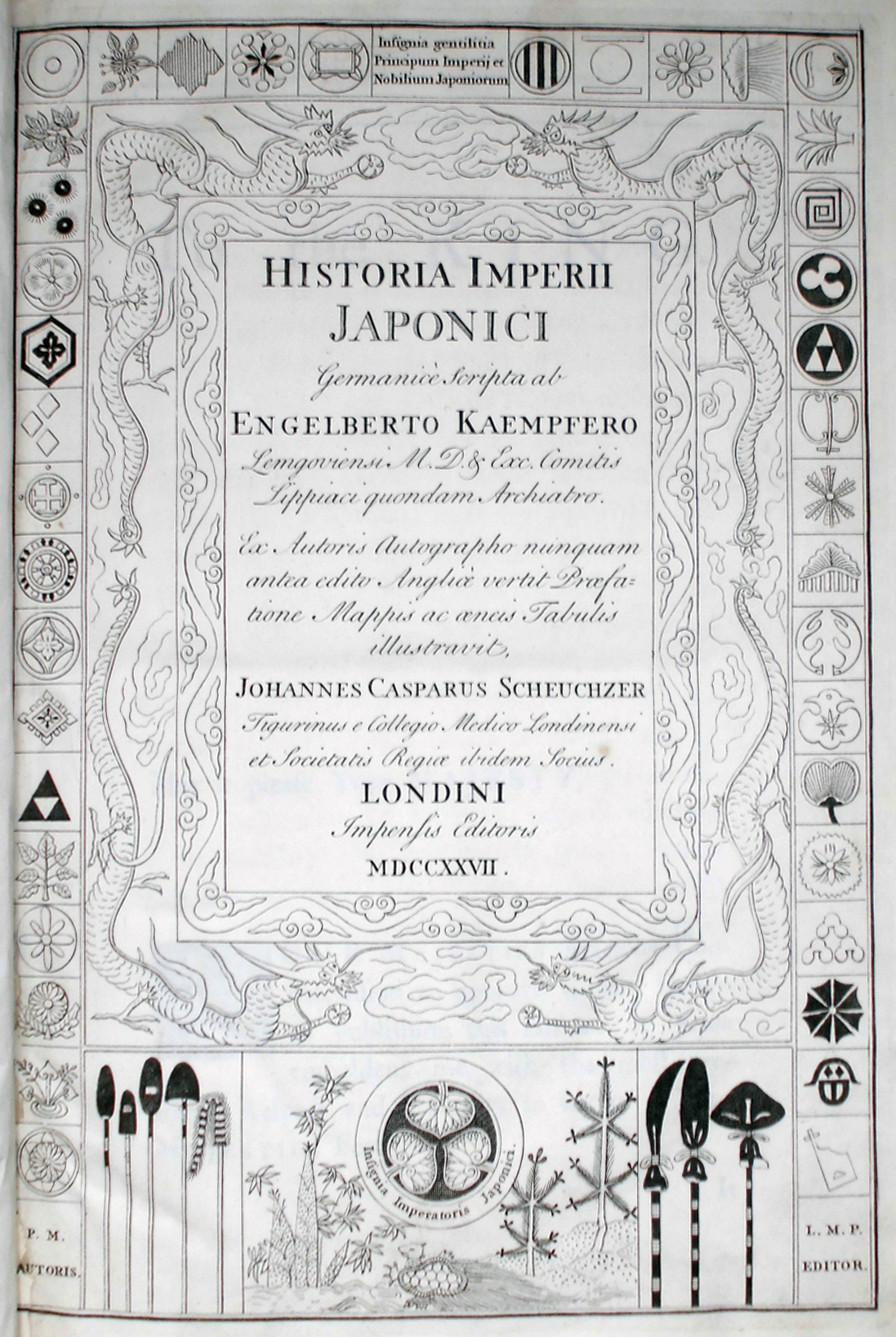 Frontispiece of Engelbert Kaempfer's "History of Japan", London 1727